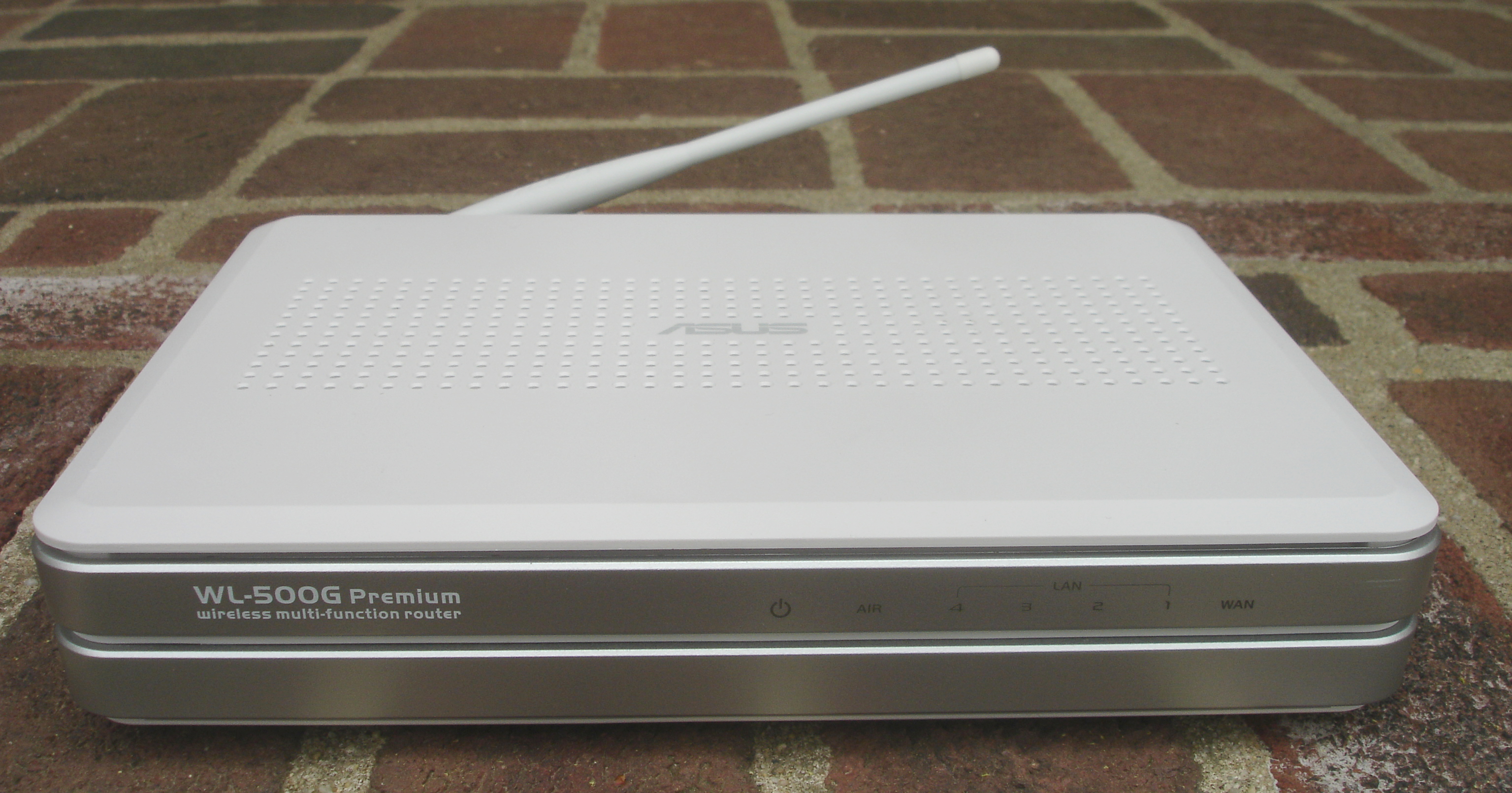 Asus WL-500g Premium wireless router, front view